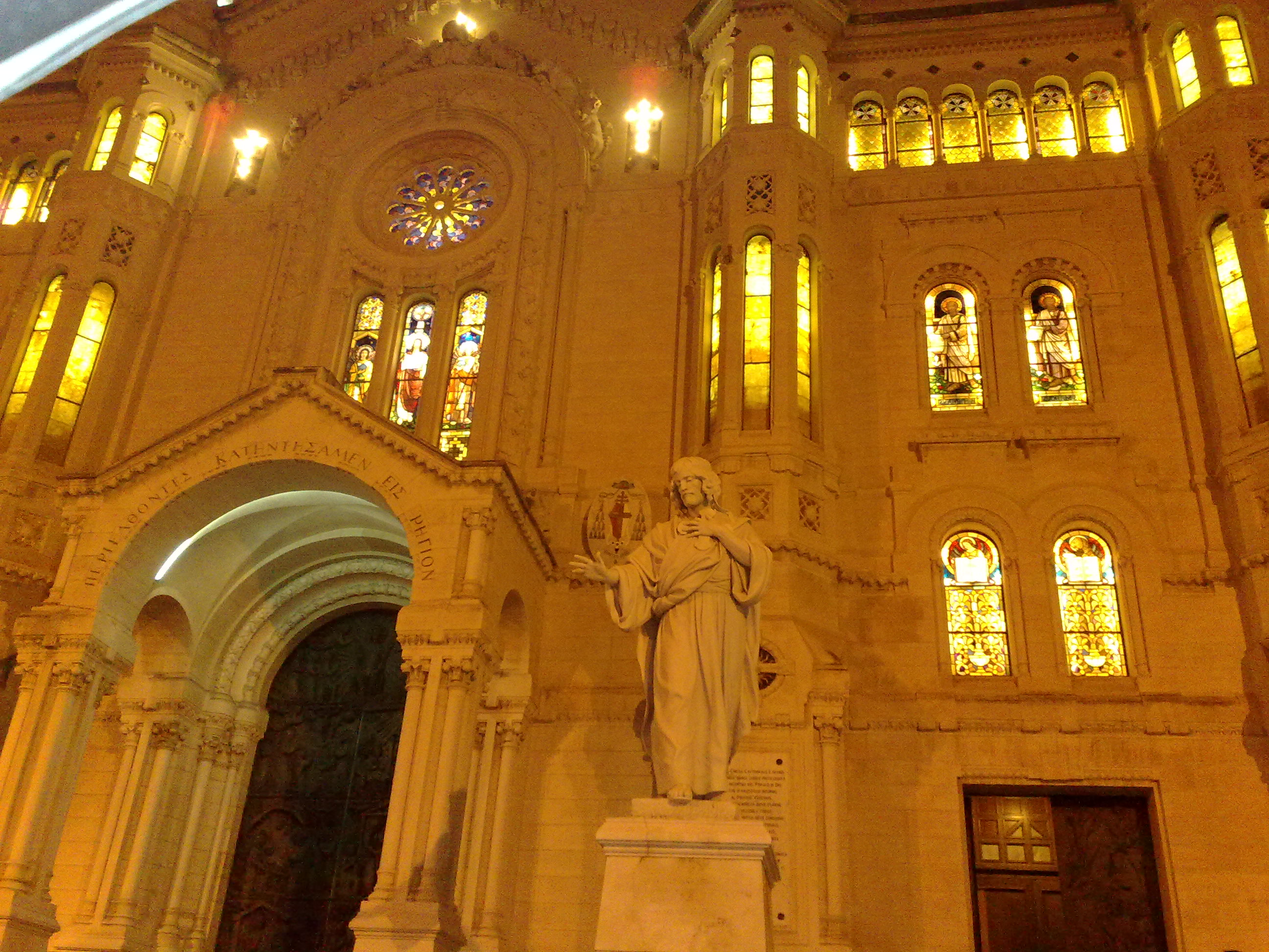 Cathedral (Reggio Calabria)